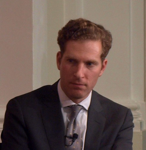 Harvard Law School Professor Noah Feldman. Photo by Matthew Hutchins.